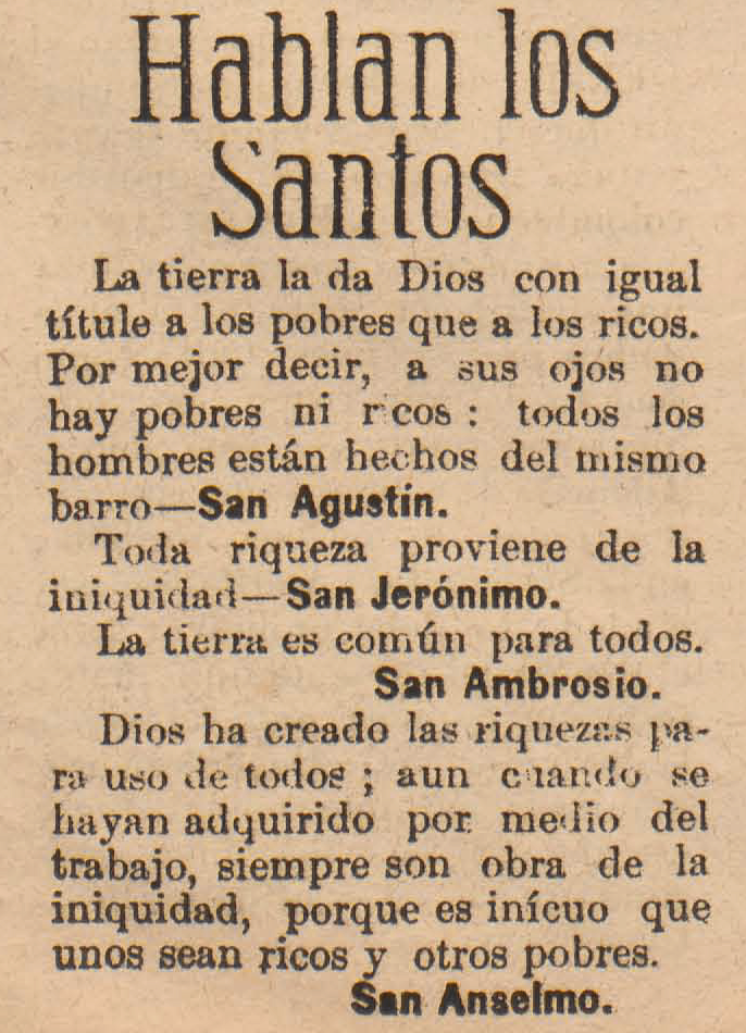 Sección "Hablan Los Santos"